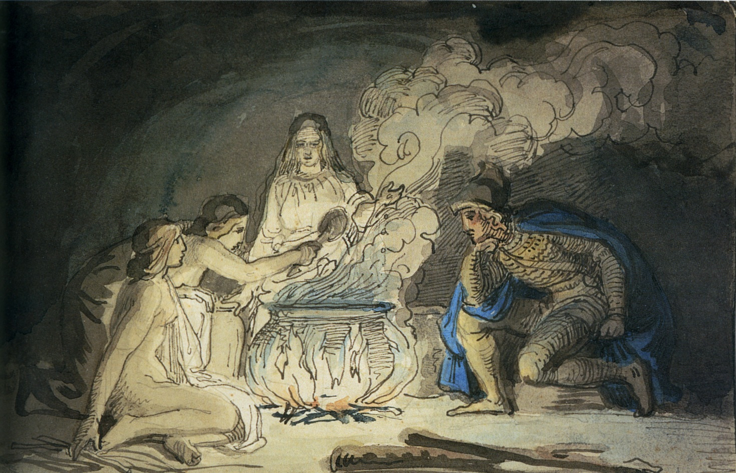 Høtherus meets the wood maidens as per Gesta Danorum